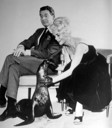 Publicity photo of Gene Barry and Marie Wilson (guest star) from the television program Burke's Law.